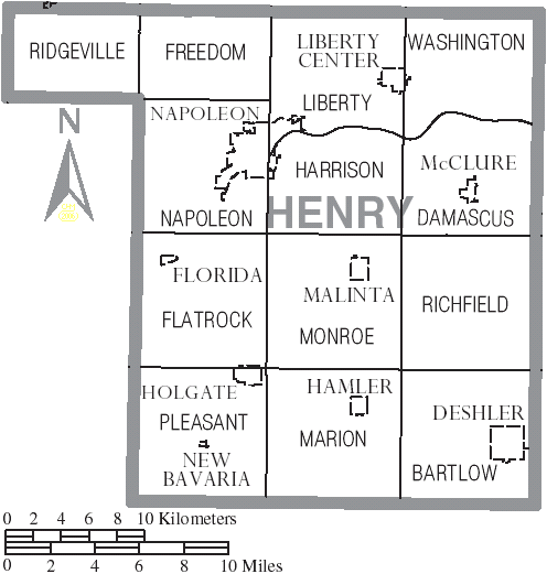 Map of Henry County, Ohio, United States with township and municipal boundaries